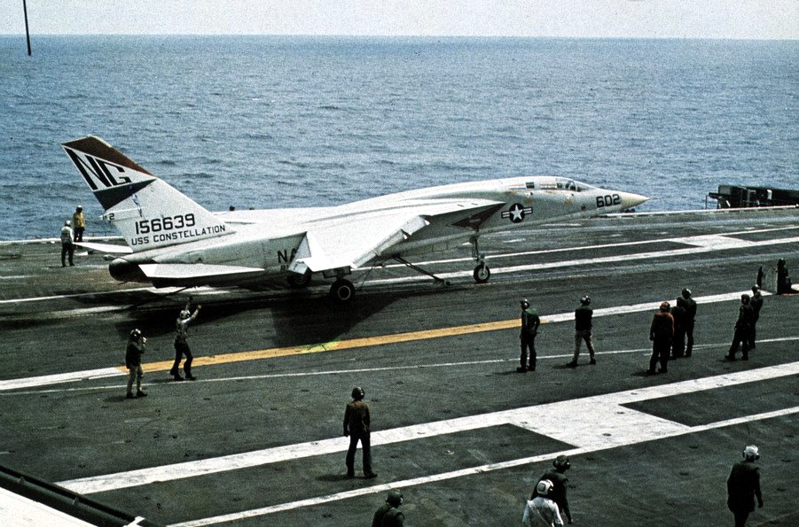 A U.S. Navy North American RA-5C Vigilante (BuNo 156639) of Heavy Reconnaissance Squadron RVAH-12 "Speartips" about to launch from the aircraft carrier USS Constellation (CVA-64). RVAH-12 was assigned to Carrier Air Wing 9 (CVW-9) aboard the Constellation for a deployment to Vietnam from 5 January to 11 October 1973.